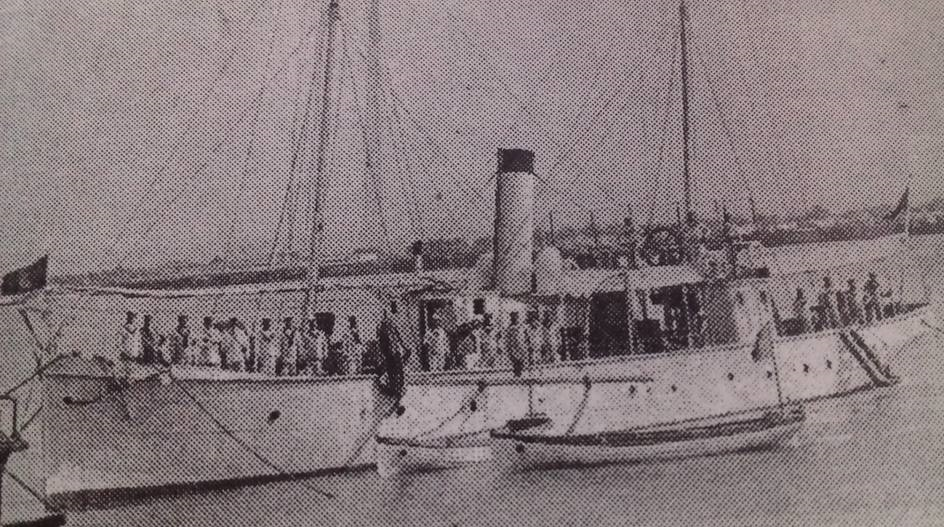 The image depicts the Romanian gunboat Grivița in 1913